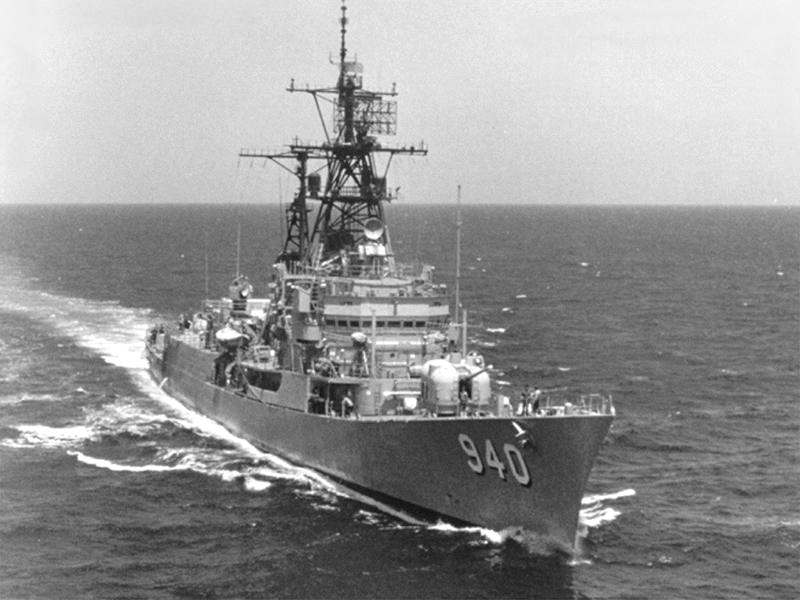 The U.S. Navy destroyer USS Manley (DD-940) underway in August 1975.